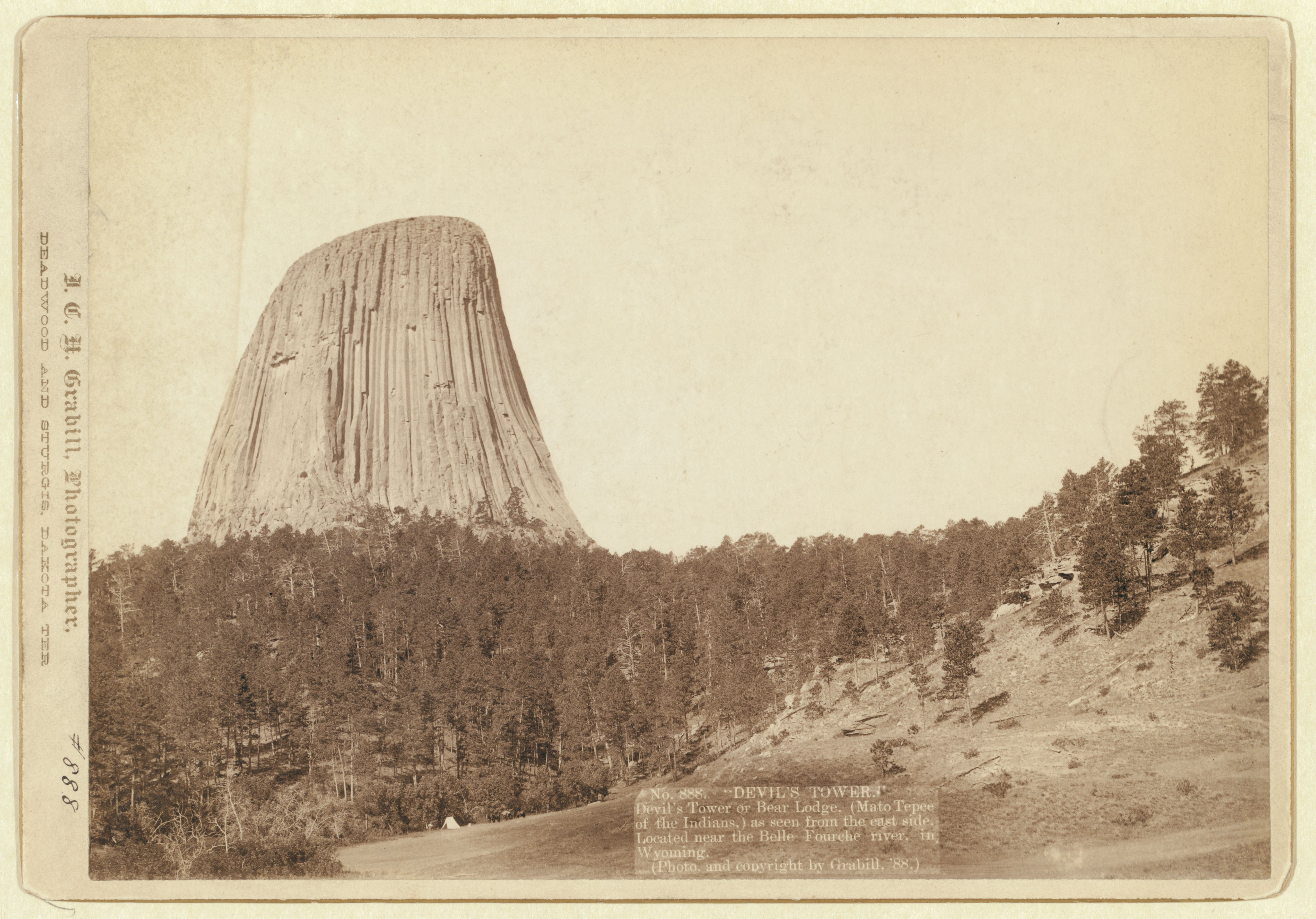 Original title "Devil's Tower." Devil's Tower or Bear Lodge. (Mato [i.e. Mateo] Tepee of the Indians), as seen from the east side. Located near the Belle Fourche river, in Wyoming Distant view of Devil's Tower